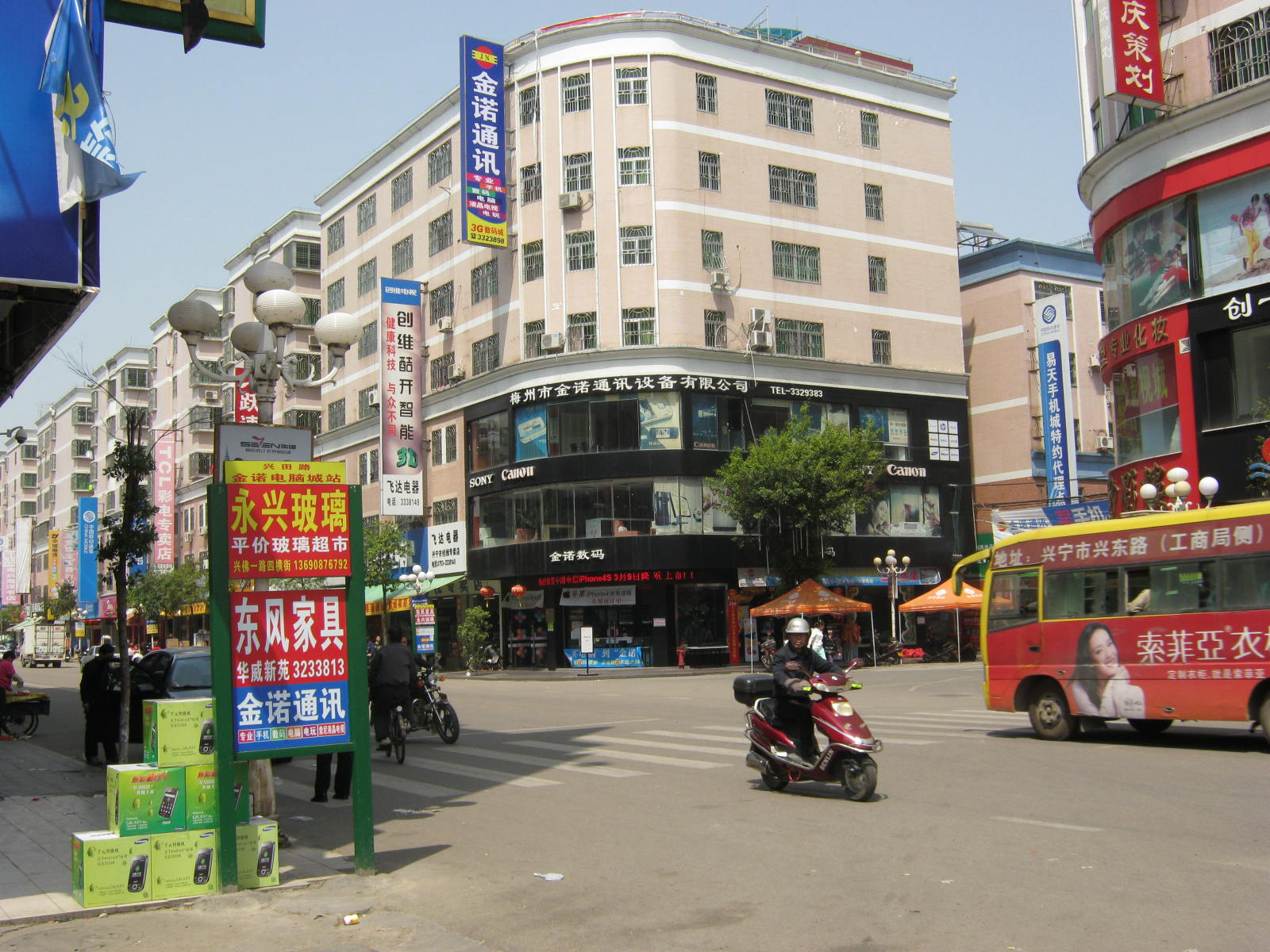 Xingtianyi street (兴田一路)